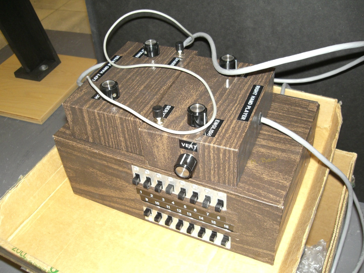 Ralph Baer-built reproduction of the Magnavox Odyssey prototype, dubbed the " Brown Box" at the time.